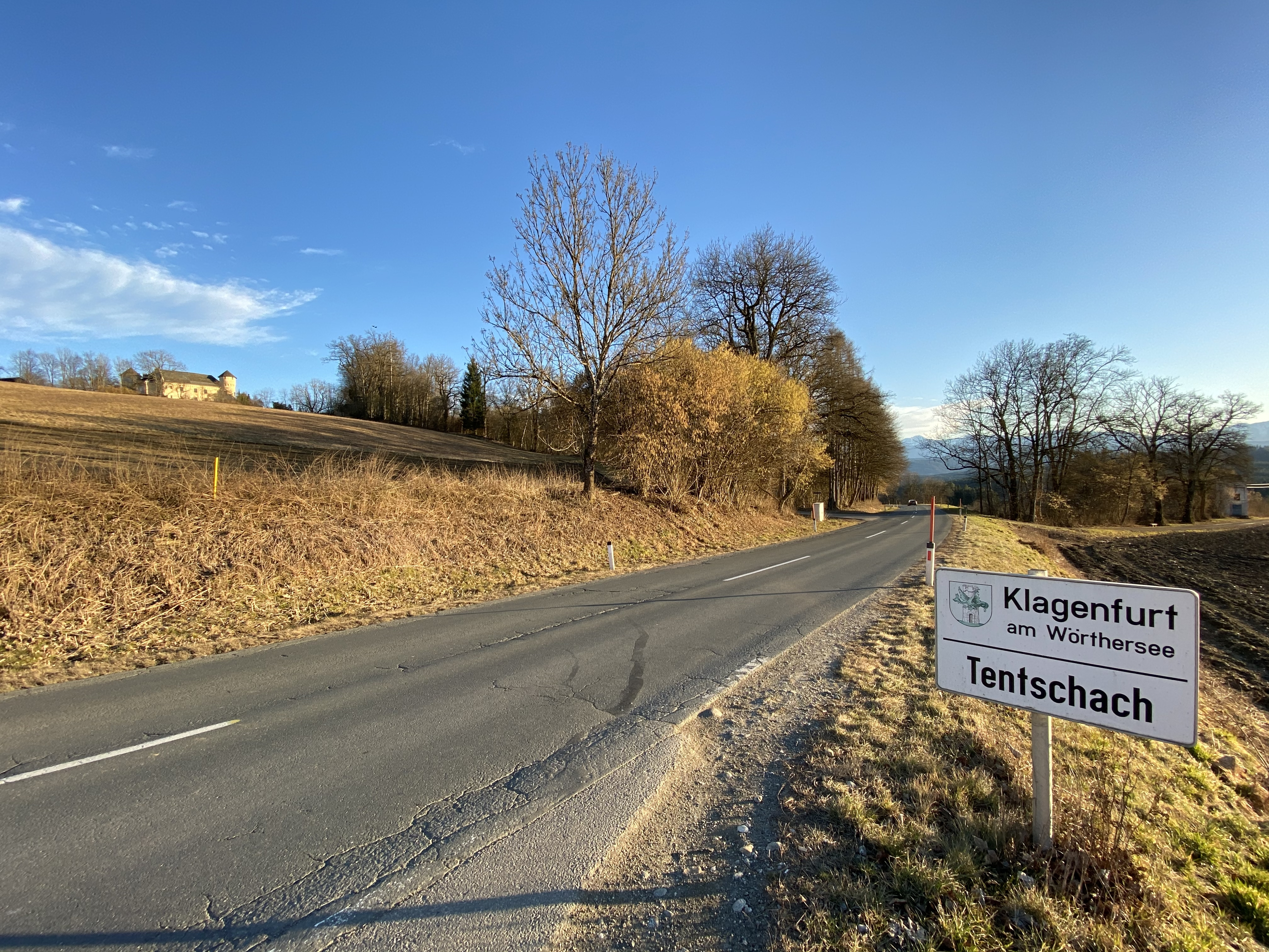 Tentschach Wölfnitz Klagenfurt / Carinthia / Austria / EU.